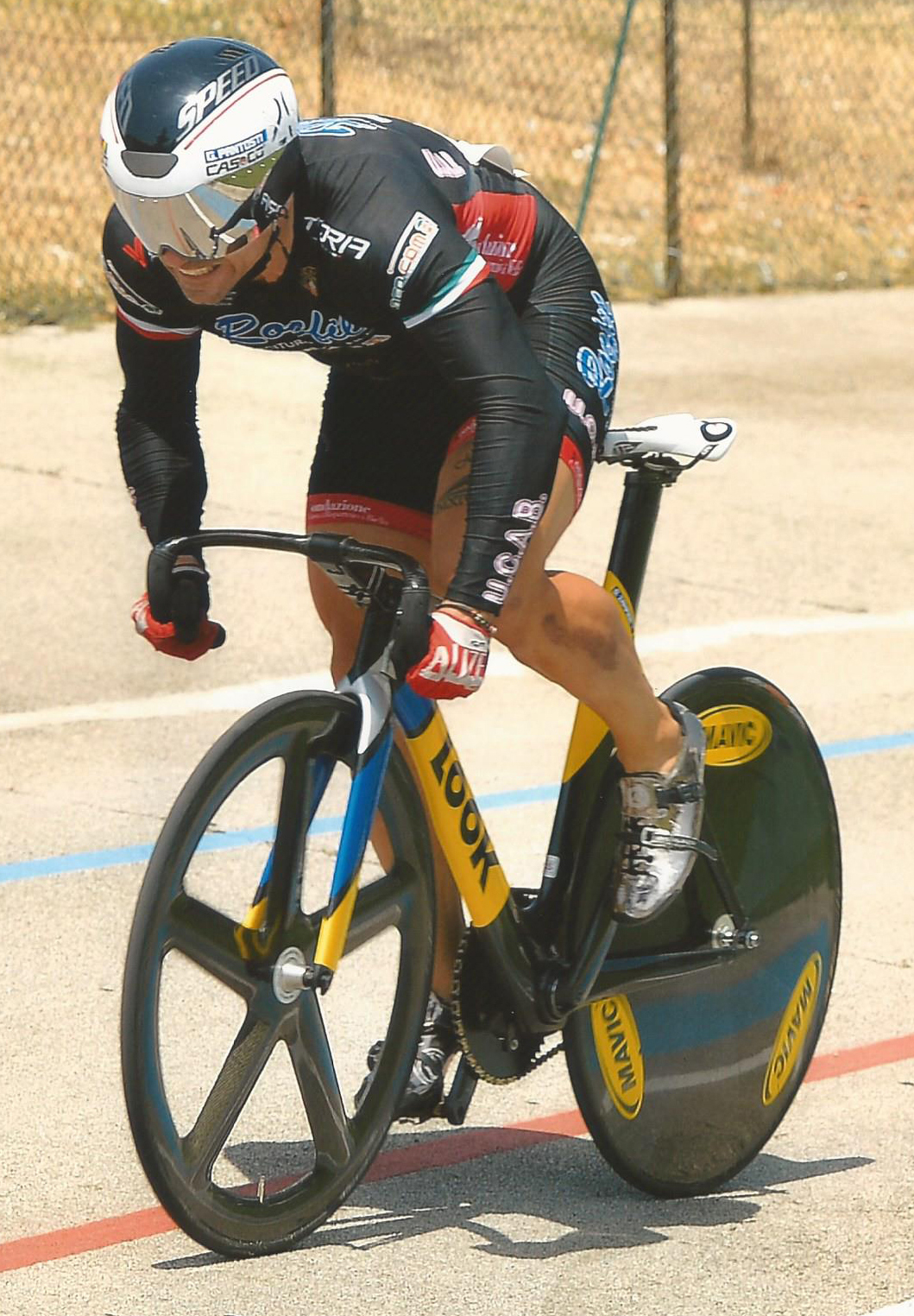 Dario Zampieri in azione ad Ascoli in occasione dei Campionati Italiani Assoluti di Velocità e Keirin